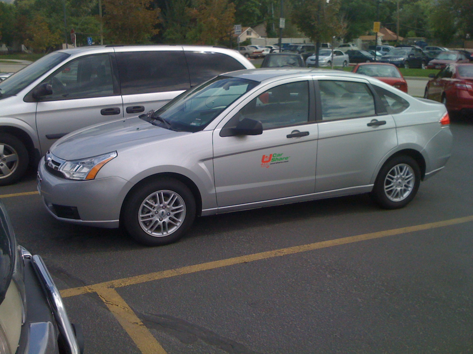 A Ford Focus car of U Car Share parked at Ballpark TRAX station.